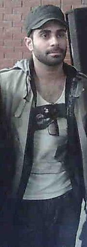 Gökhan Türkmen, is a Turkish musician